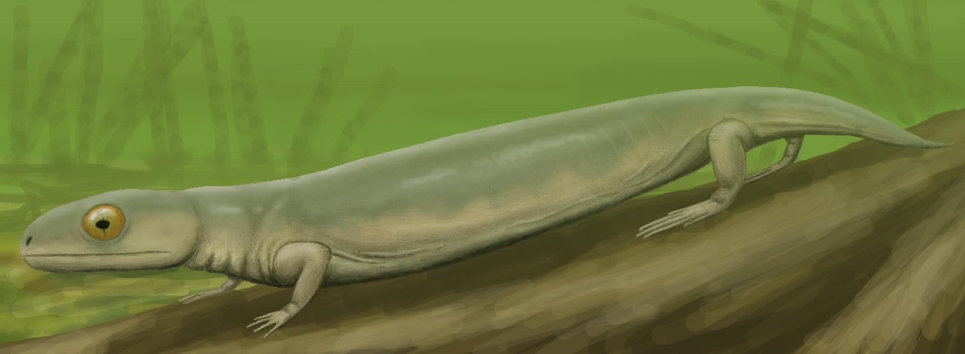 Life restoration of Saxonerpeton geinitzi.